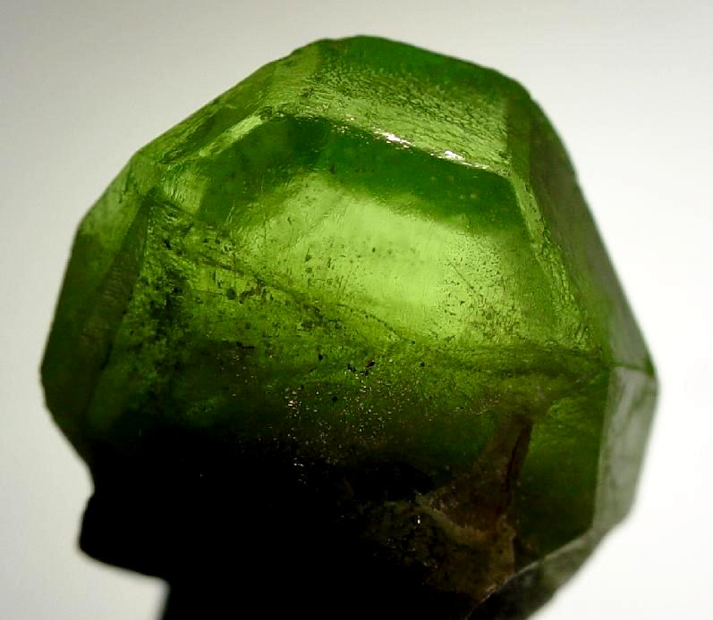 Forsterite, Olivine Locality: Suppat, Northwest Frontier Province, Pakistan Size: thumbnail, 2.3 x 1.9 x 1.3 cm Forsterite (Peridot) Lovely, equant crystal of Peridot with excellent color and habit. The faces attractively vary from clear and lustrous to frosted. Seeing the clear windows into the green depths of the crystal adds to the very nice aesthetics....truly, it has to be seen in person to be appreciated. Lastly, the LIME GREEN COLOR is TOP quality and very intense! 2.3 x 1.9 x 1.3 cm